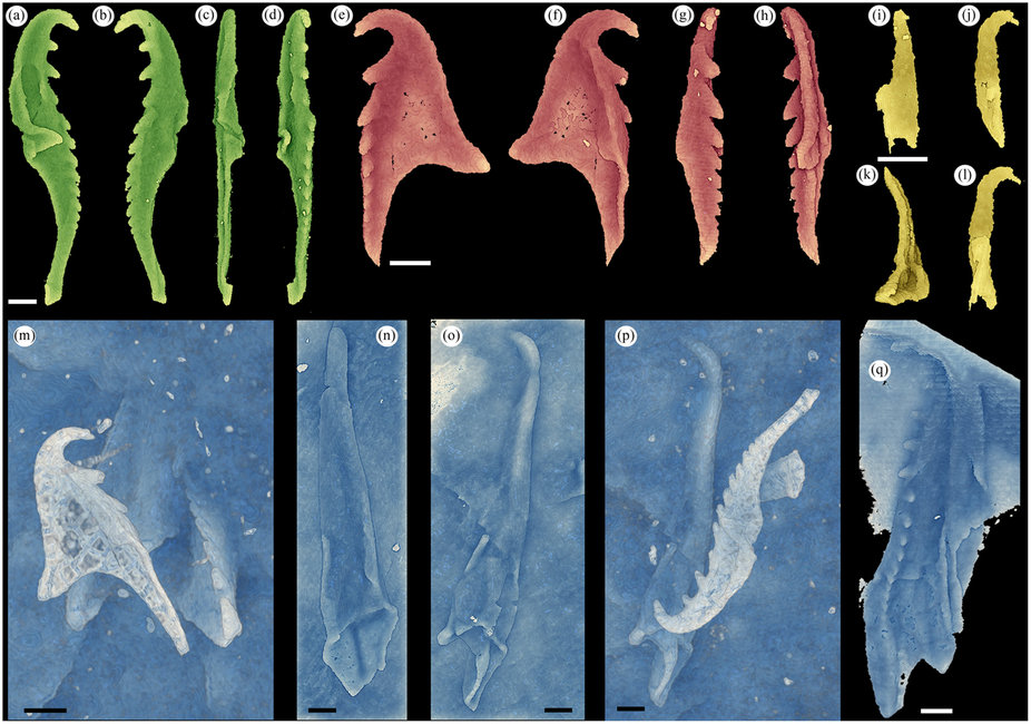 Websteroprion armstrongi CT-scanning reconstructions of specimens detected on (n,o) and concealed within (remaining figures) slab ROM 63120; (a–d) Laterally strongly compressed left MII in (a) left lateral, (b) right lateral, (c) ventral, (d) dorsal view; (e–h) Right MII (posteriormost tip might be missing) in (e) dorsal, (f) ventral, (g) left lateral, (h) right lateral view; (i–l) Lateral or intercalary tooth in different views; (m) Right MII (same specimen as in (e–h)) on top of unknown element and an anterior right maxilla; (n) Left MI in ventral view (same specimen as in Fig. 1l); (o) Right MI in ventro-lateral view (same specimen as in Fig. 1k); (p) Right MI (same specimen as in (o)) and left MII (same specimen as in (a–d)); (q) Right MI in dorsal view. Scale bars 1 mm.